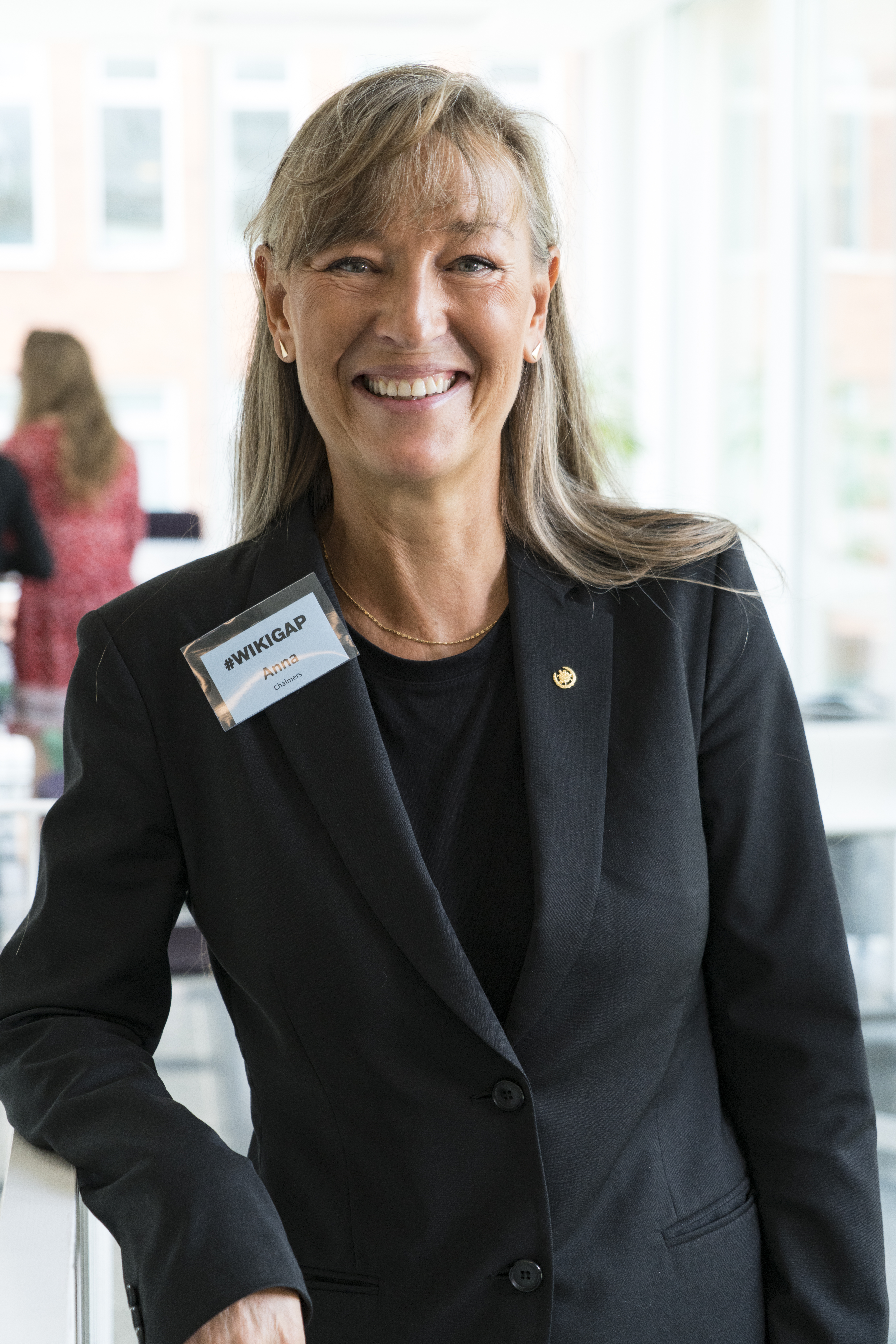 Anna Dubois, vice principle at Chalmers University of Technology